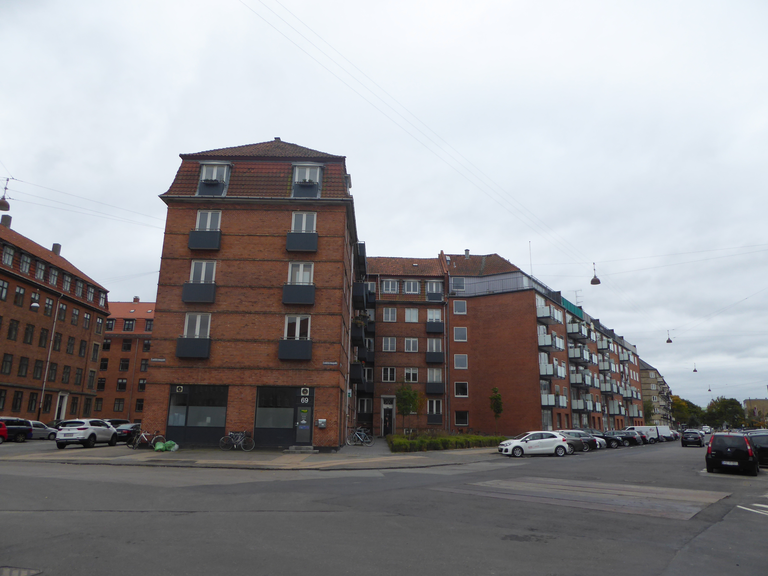 Apartment building at the corner of Landskronagade and Bryggervangen in Østerbro in Copenhagen.